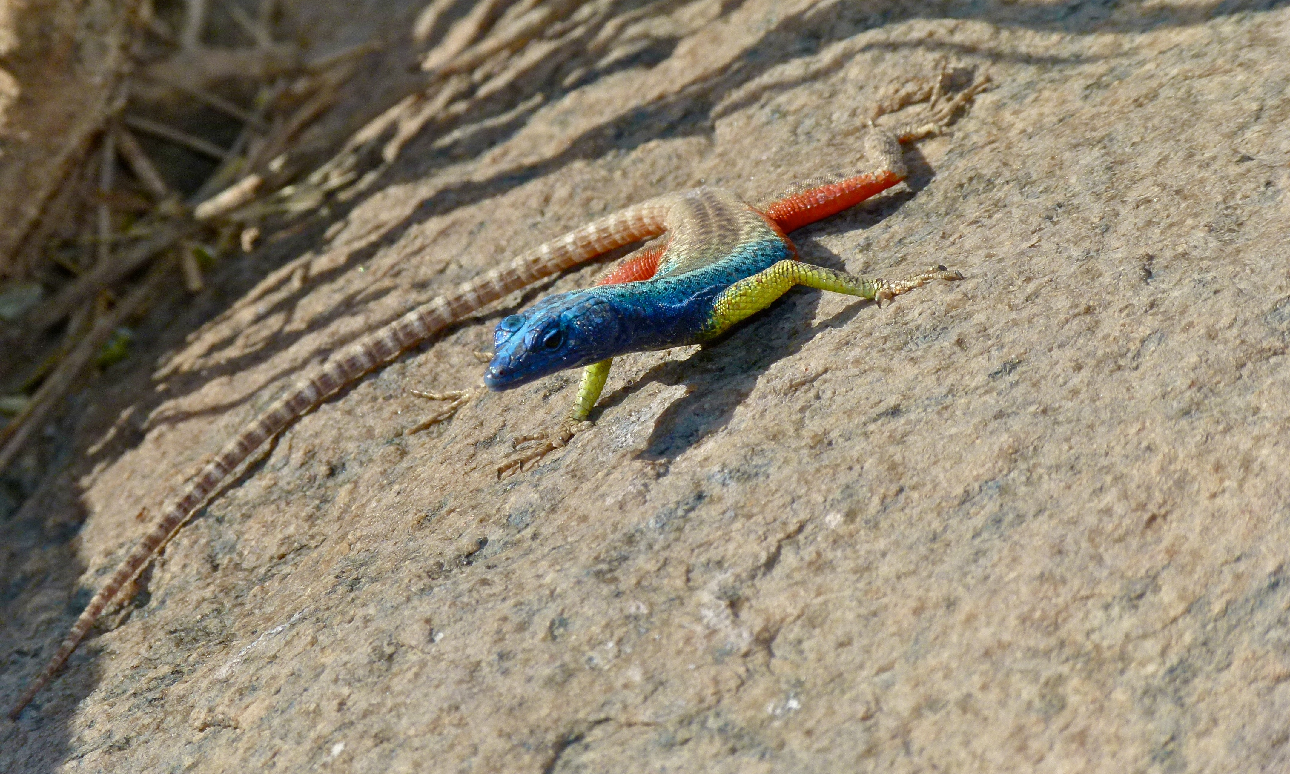 Augrabies National Park, SOUTH AFRICA